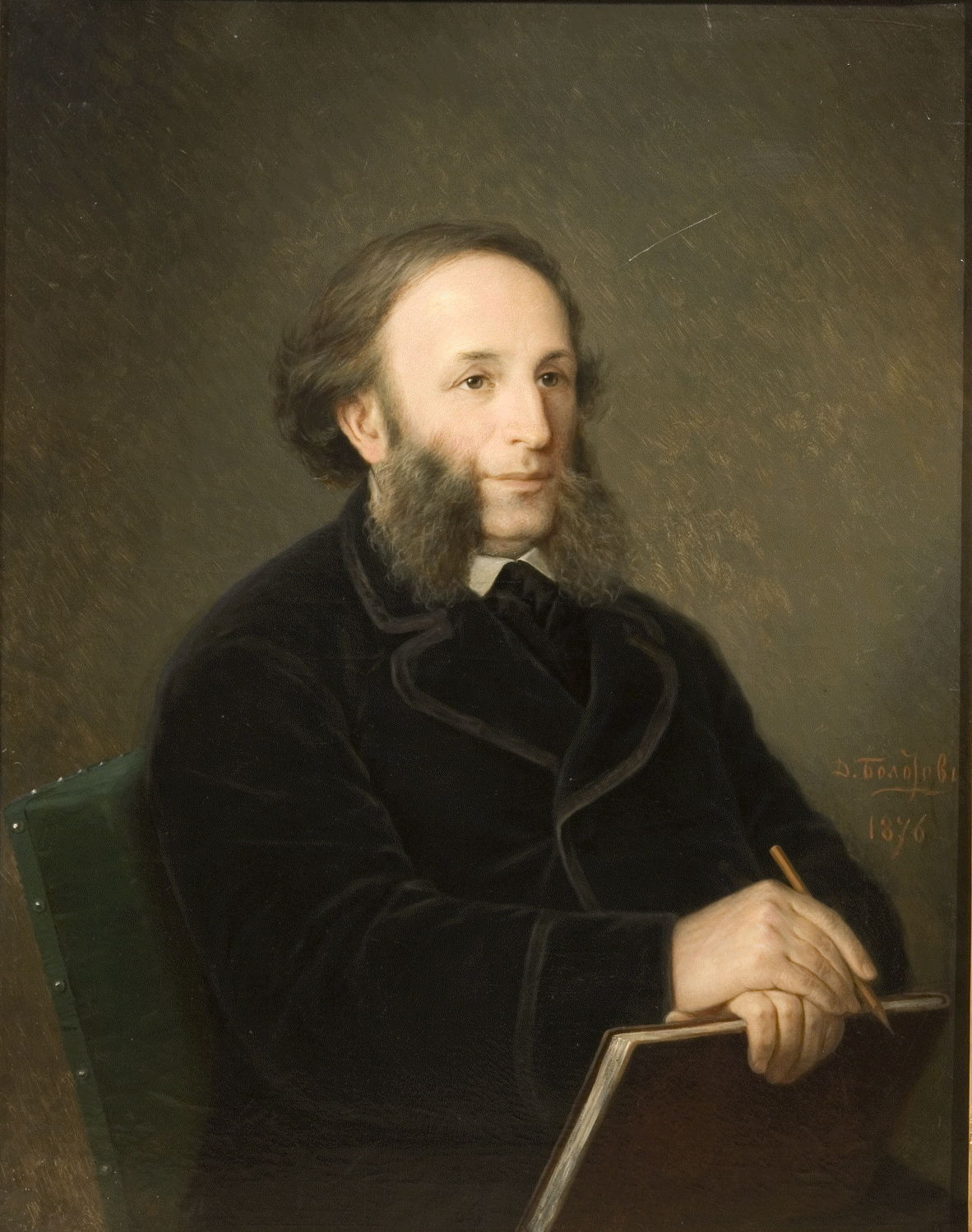 The portrait of Ivan Aivazovsky